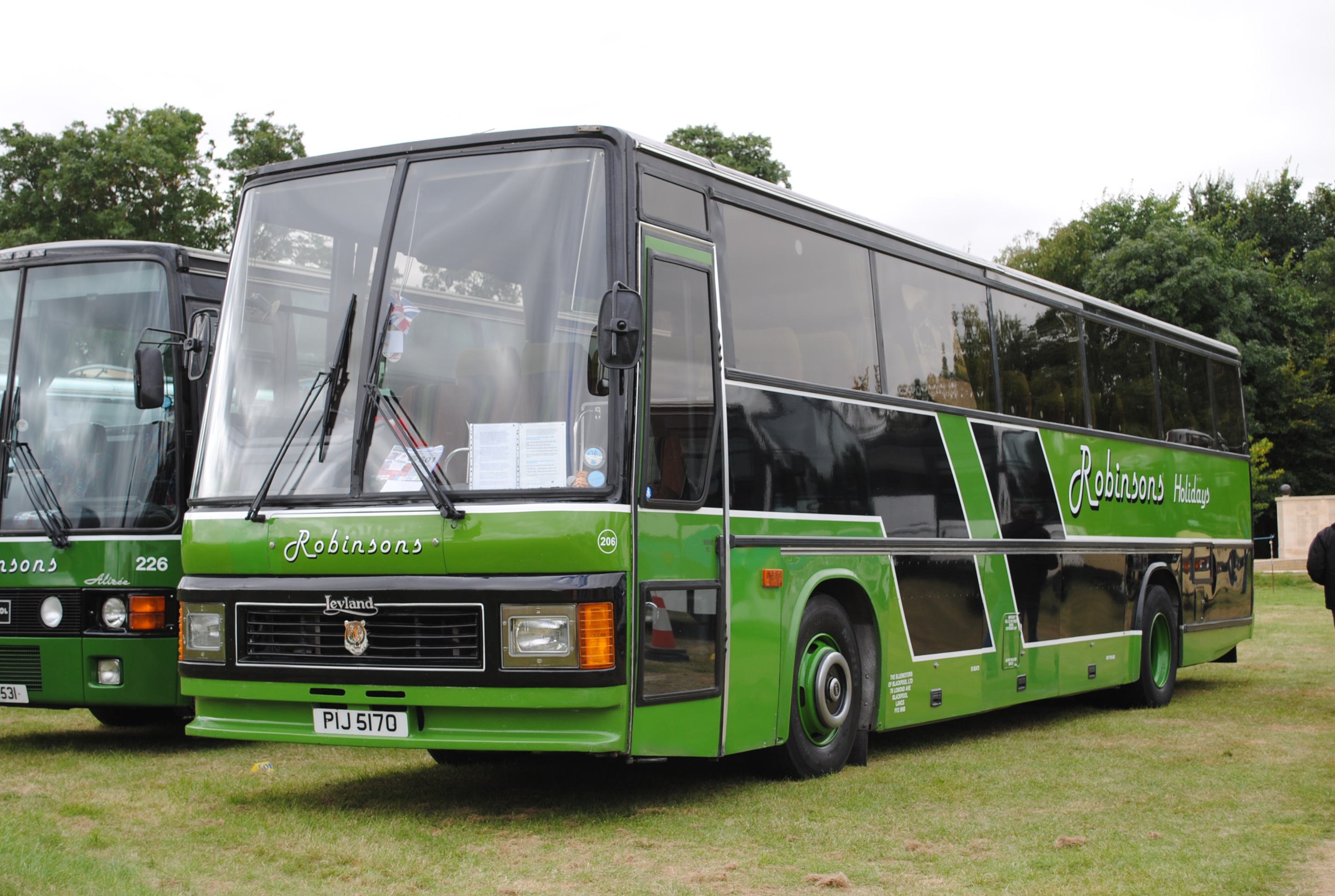 Now preserved and seen at showbus 2012. is PIJ 5170 Leyland Tiger Duple Caribbean.